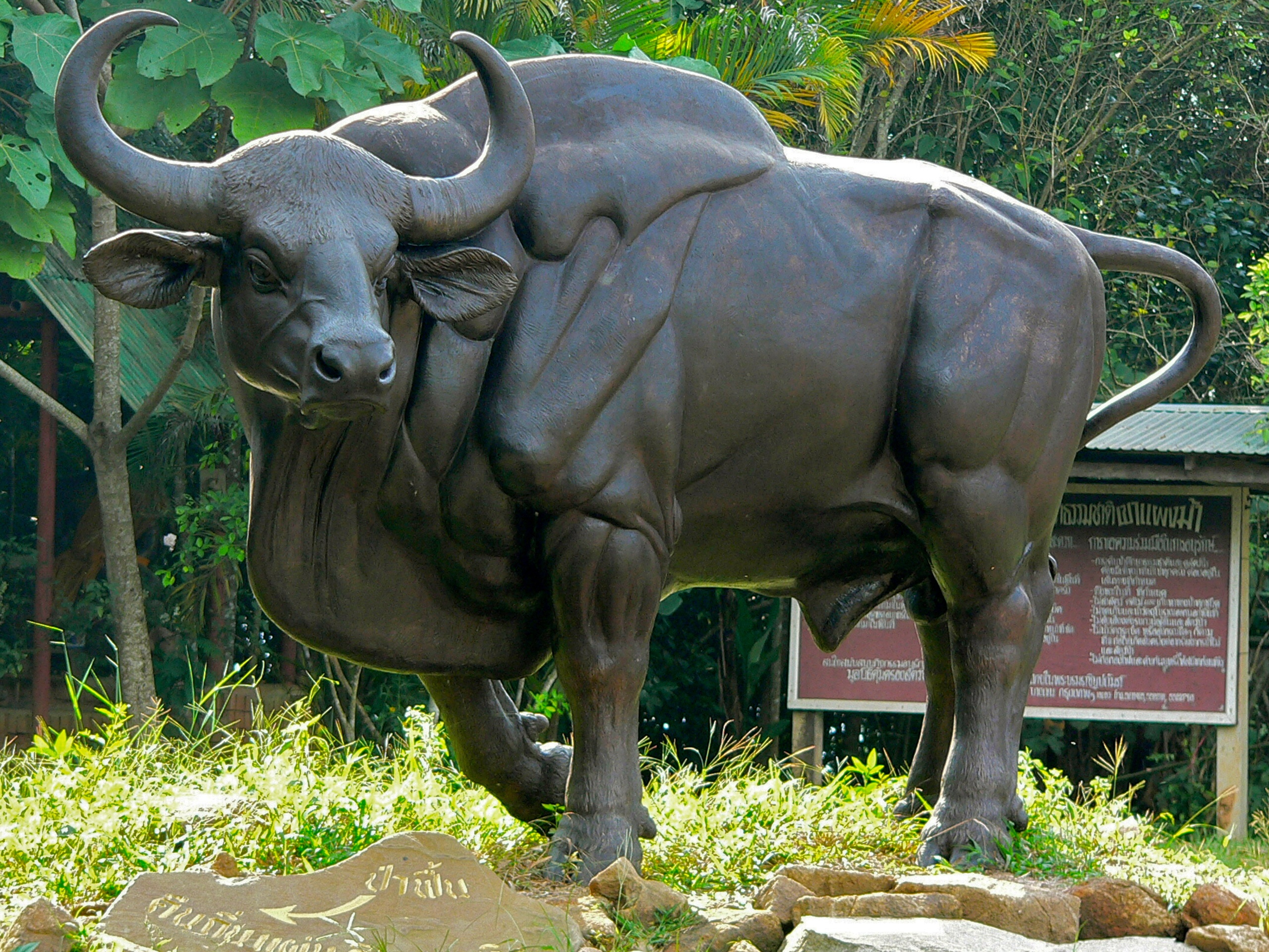 Khao Pheng Ma Forest Station, THAILAND